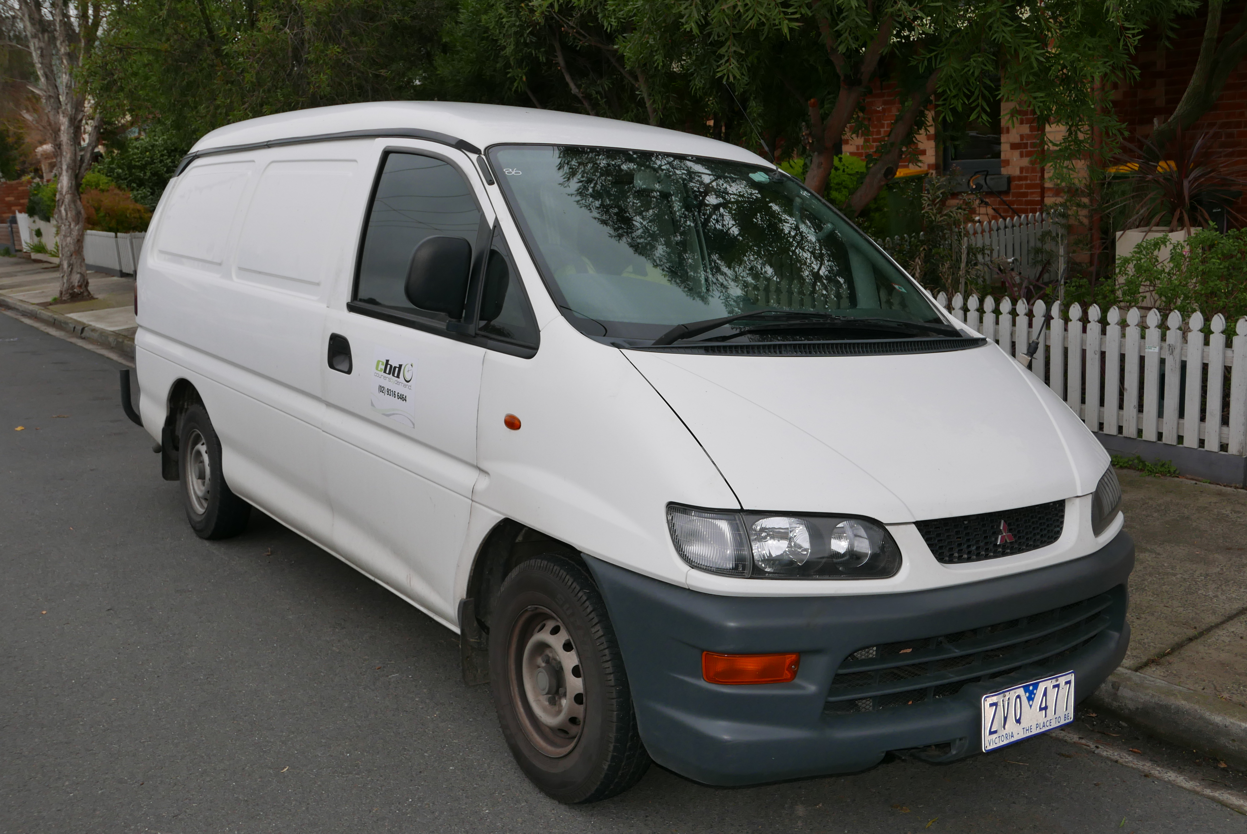 2004 Mitsubishi Express (WA MY04) van. Photographed in Northcote, Victoria, Australia. Vehicle registration enquiry results Jurisdiction Victoria Registration ZVQ477 Chassis code JMFJNPB4V4A000281 Engine code 4G64KB1640 Compliance date 2004-04 Year of manufacture 2004